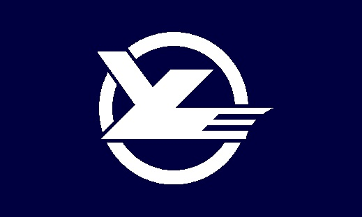 Flag of Toin Mie